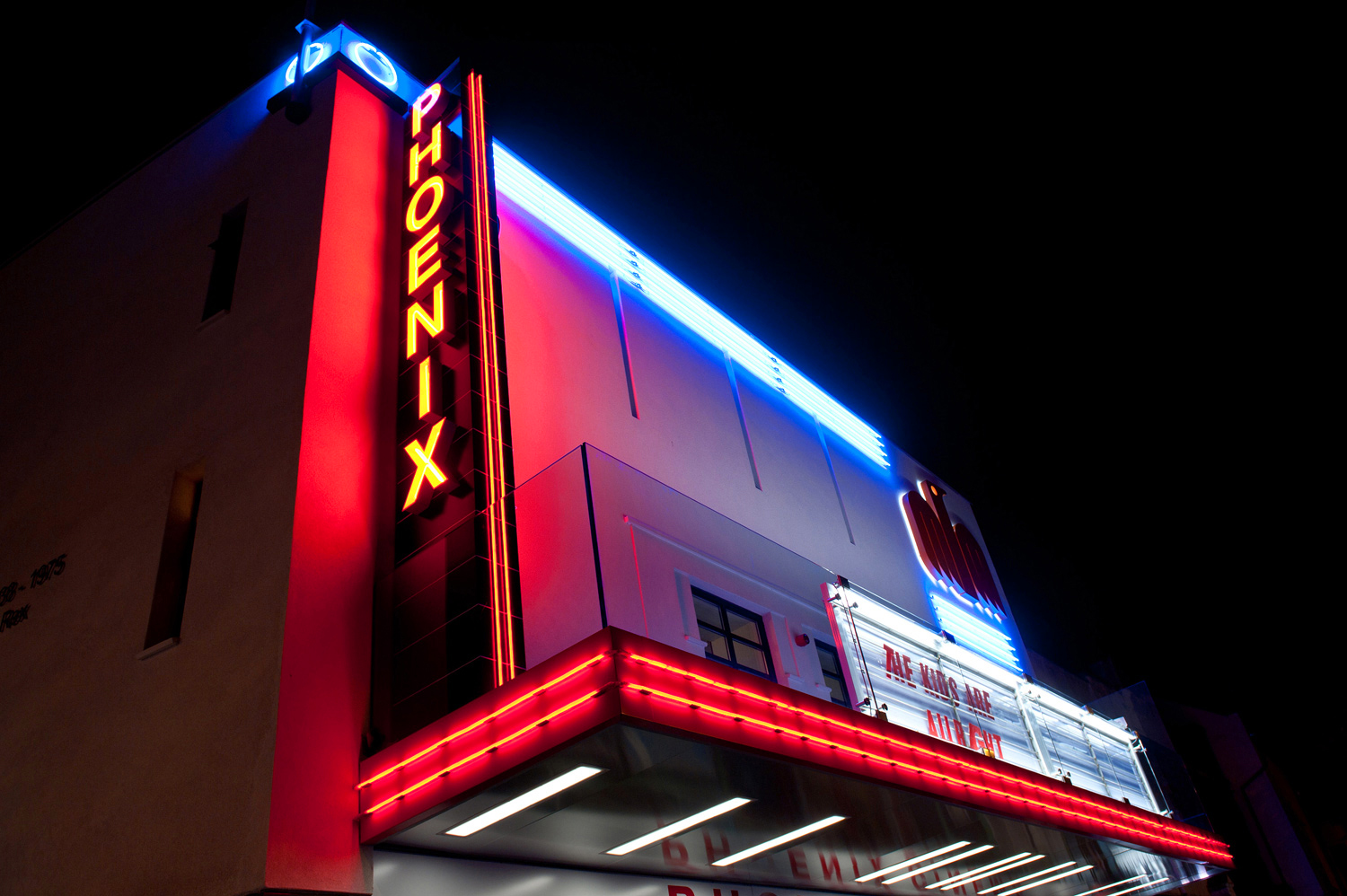 Cinema at night after the Centenary works were completed.